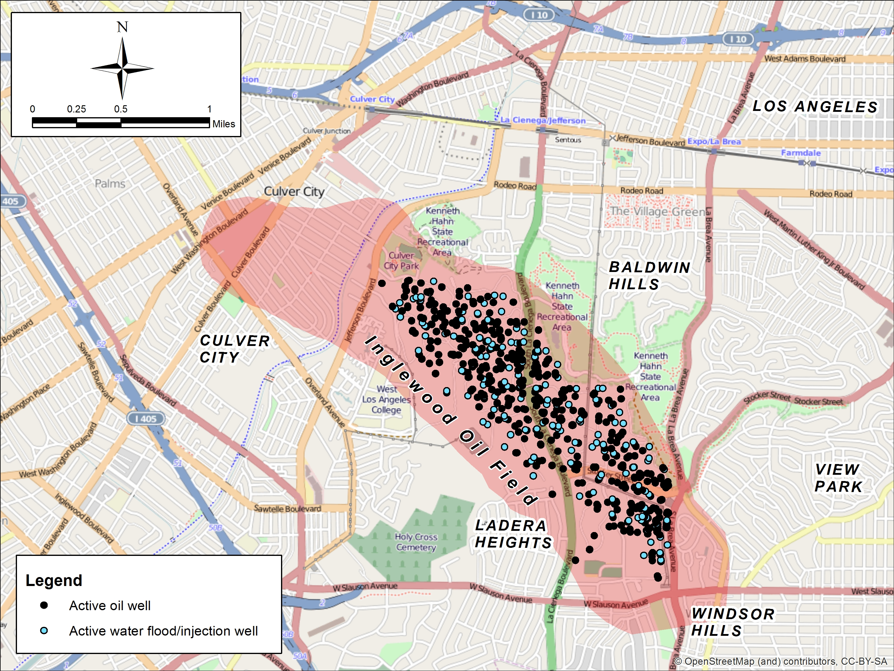 Detail of Inglewood Oil Field. By self, GFDL/cc by sa 3.0. Made in ArcGIS 10.2 using public domain and copyleft data.